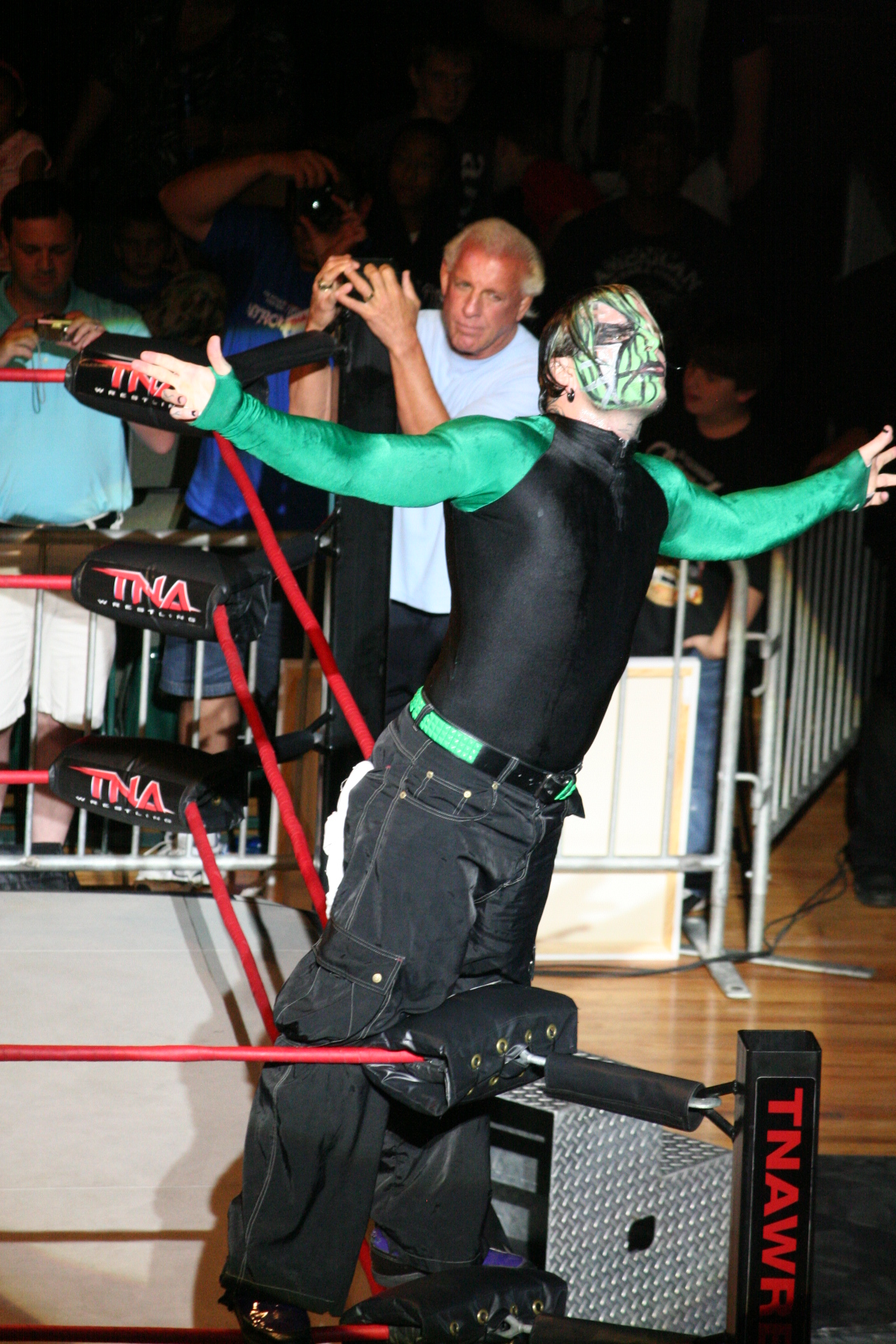 Professional wrestler Jeff Hardy at a TNA live event